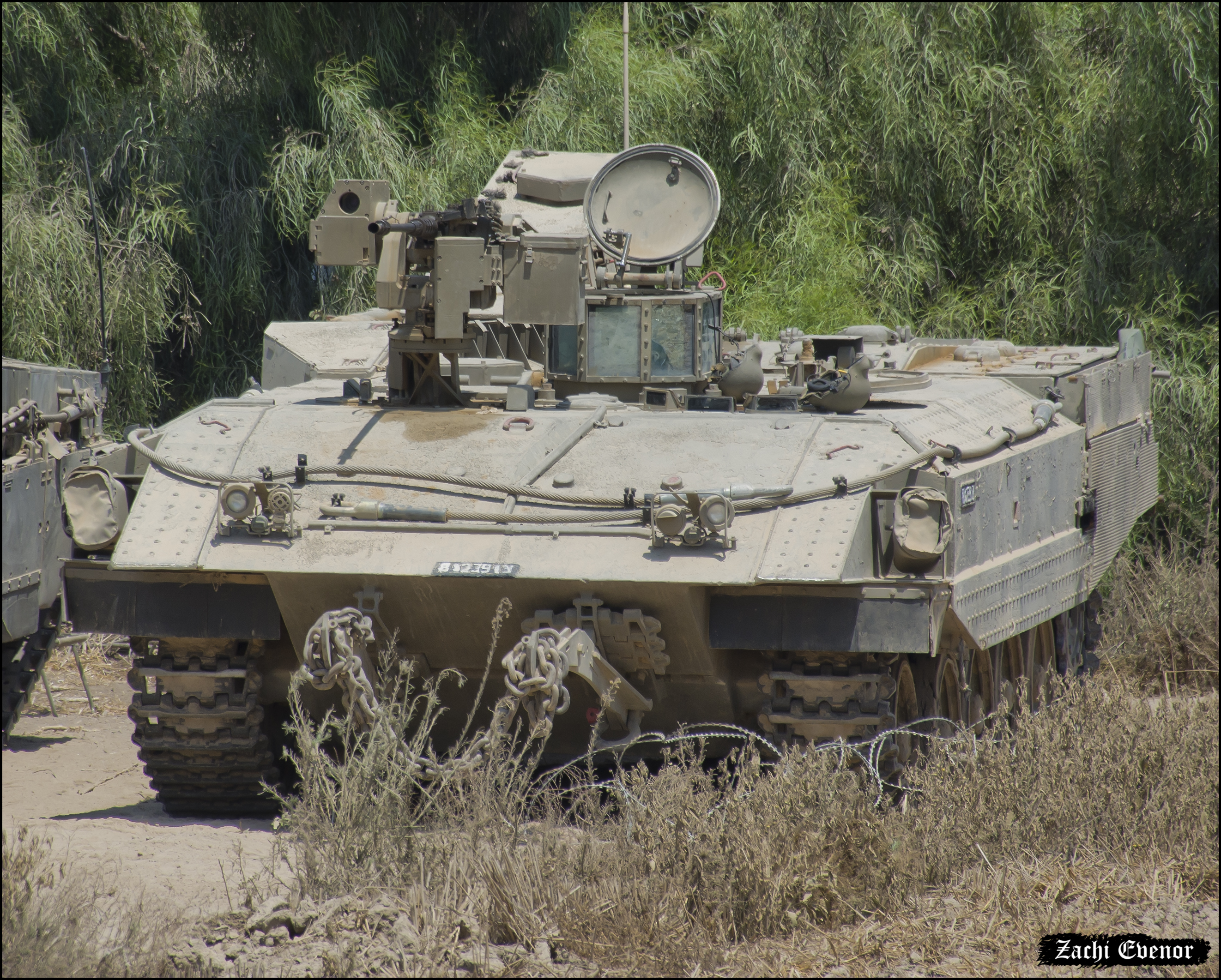 IDF Achzarit heavy APC, Israelנגמ"ש כבד אכזרית של צה"ל חמוש בעמדת קטלנית עם מקלע כבד 0.5 בראונינג